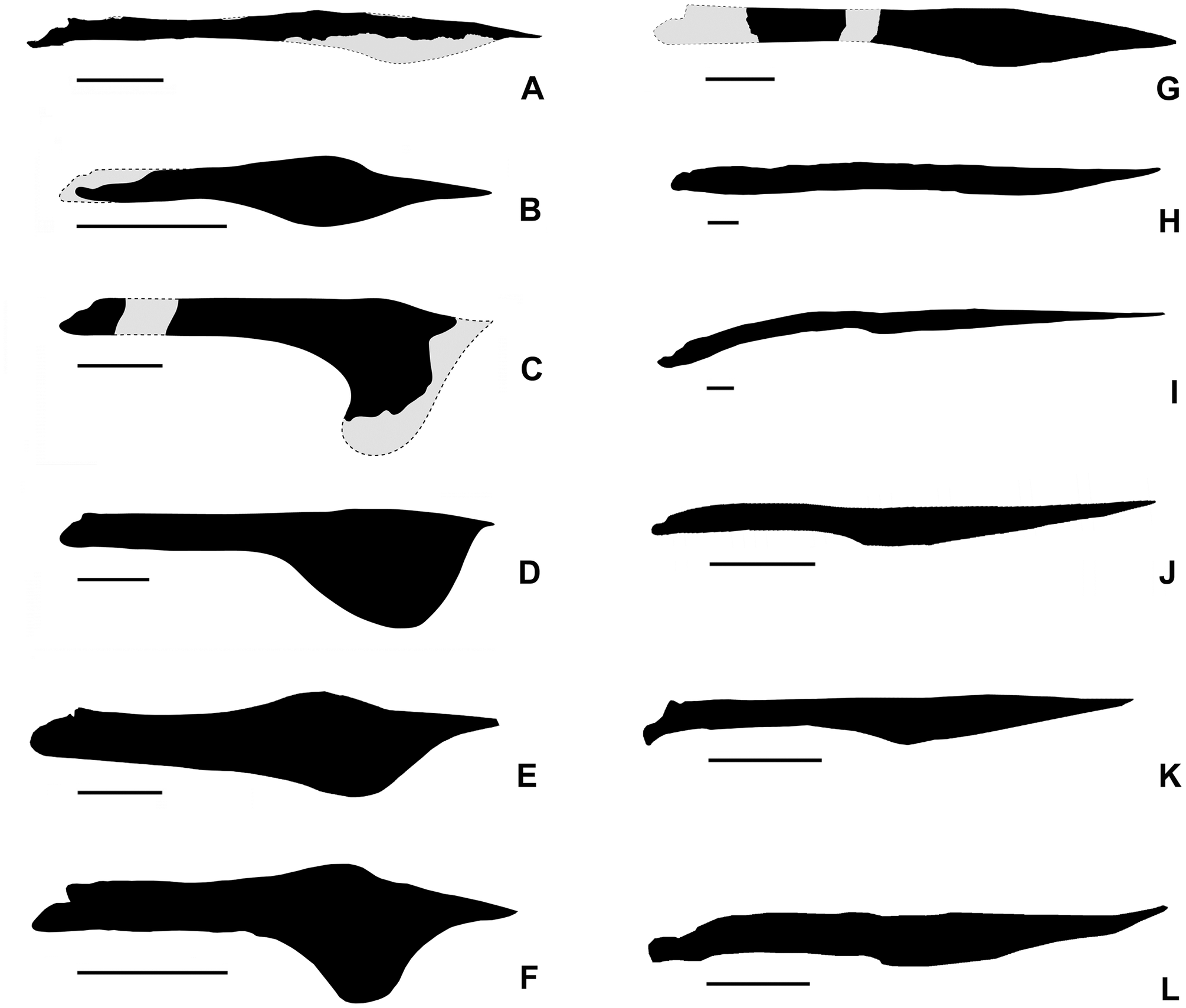 Comparison of azhdarchoid mandibles (right lateral view). (A) Aymberedactylus cearensis gen. et sp. nov. (MN 7596-V). (B) Sinopterus dongi (GMN-03-11-001, holotype of “Huaxiapterus jii”, based on [8, 46]). (C) Europejara olcadesorum (MCCM-LH 9413, based on [8]). (D) Tupandactylus imperator (CPCA 3590, based on [8, 28]. (E) Caiuajara dobruskii (CP.V 1005a, based on [7]). (F) Tapejara wellnhoferi (IMNH 1053, based on [13]). (G) Caupedactylus ybaka (MN 4726-V; based on [6]). (H) Tupuxuara leonardii (IMCF 1052, based on [3]). (I) Quetzalcoatlus sp. (TMM 42161–2, based on [42]). (J) Zhejiangopterus linhaiensis (M 1330, based on [41]). (K) Shenzoupterus chaoyangensis (HGM 41HIII- 305A, based on [43]). (L) Chaoyangopterus zhangi (LPM-R00076, based on [52]). All scales are 50 mm in length.